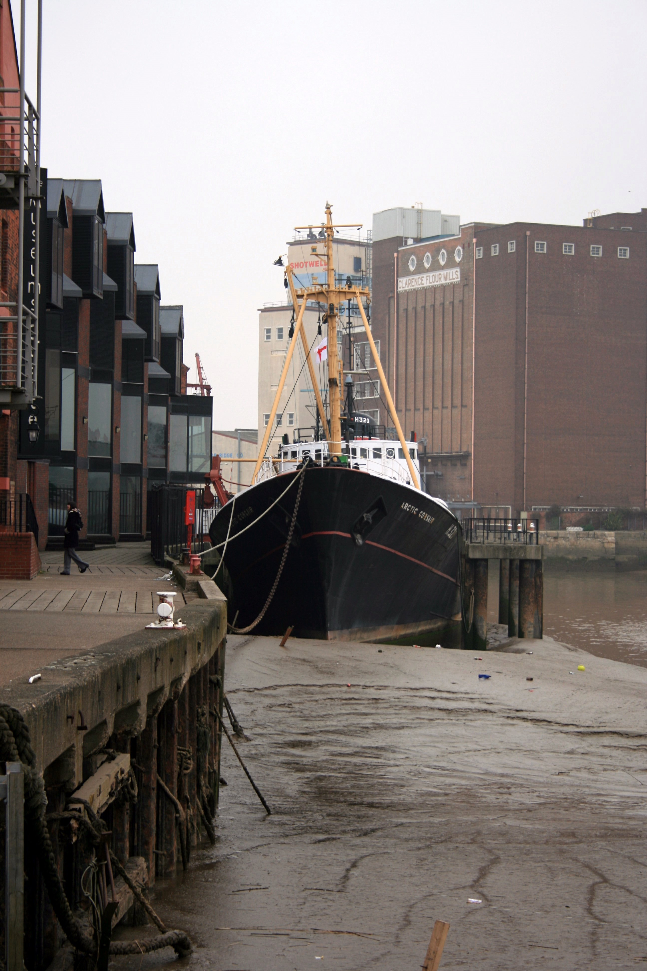 Photo's of Hull